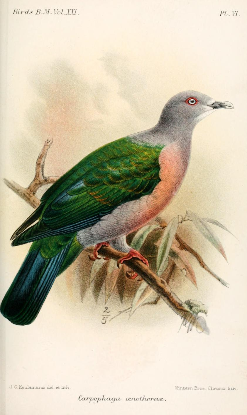 Carpophaga aenothorax = Ducula aenea, Green Imperial Pigeon